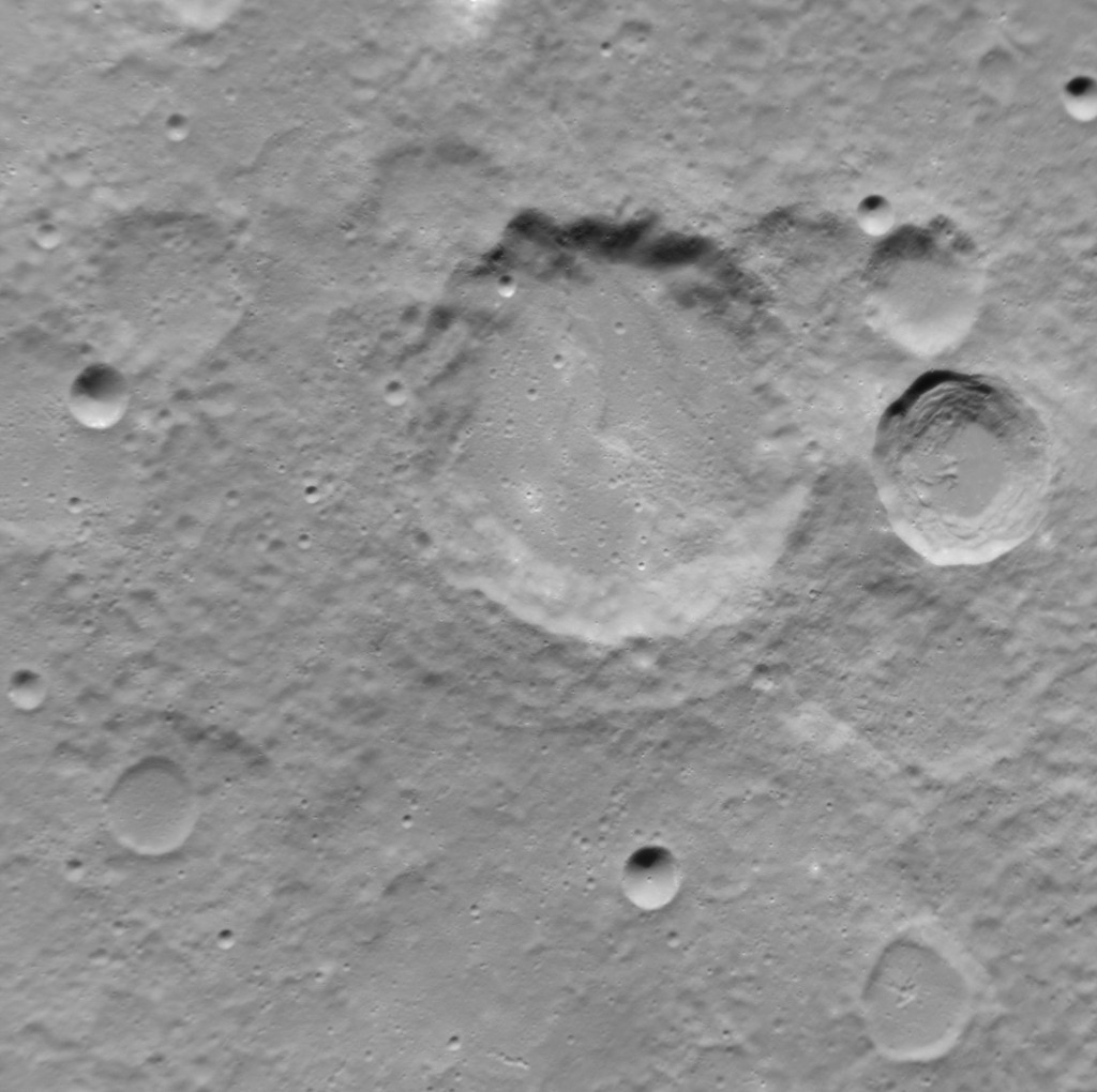 Rameau crater on Mercury. MESSENGER Narrow Angle Camera image. Emission Angle: 20.4 Incidence Angle: 62.7 Latitude: -54.6 Longitude: 322.1 Phase Angle: 59.3